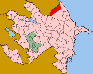 Map of Azerbaijan showing Qusar rayon.